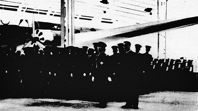 Nakajima Aircraft Company Ota Plant.